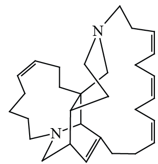 Ingamine B stereochemical formula